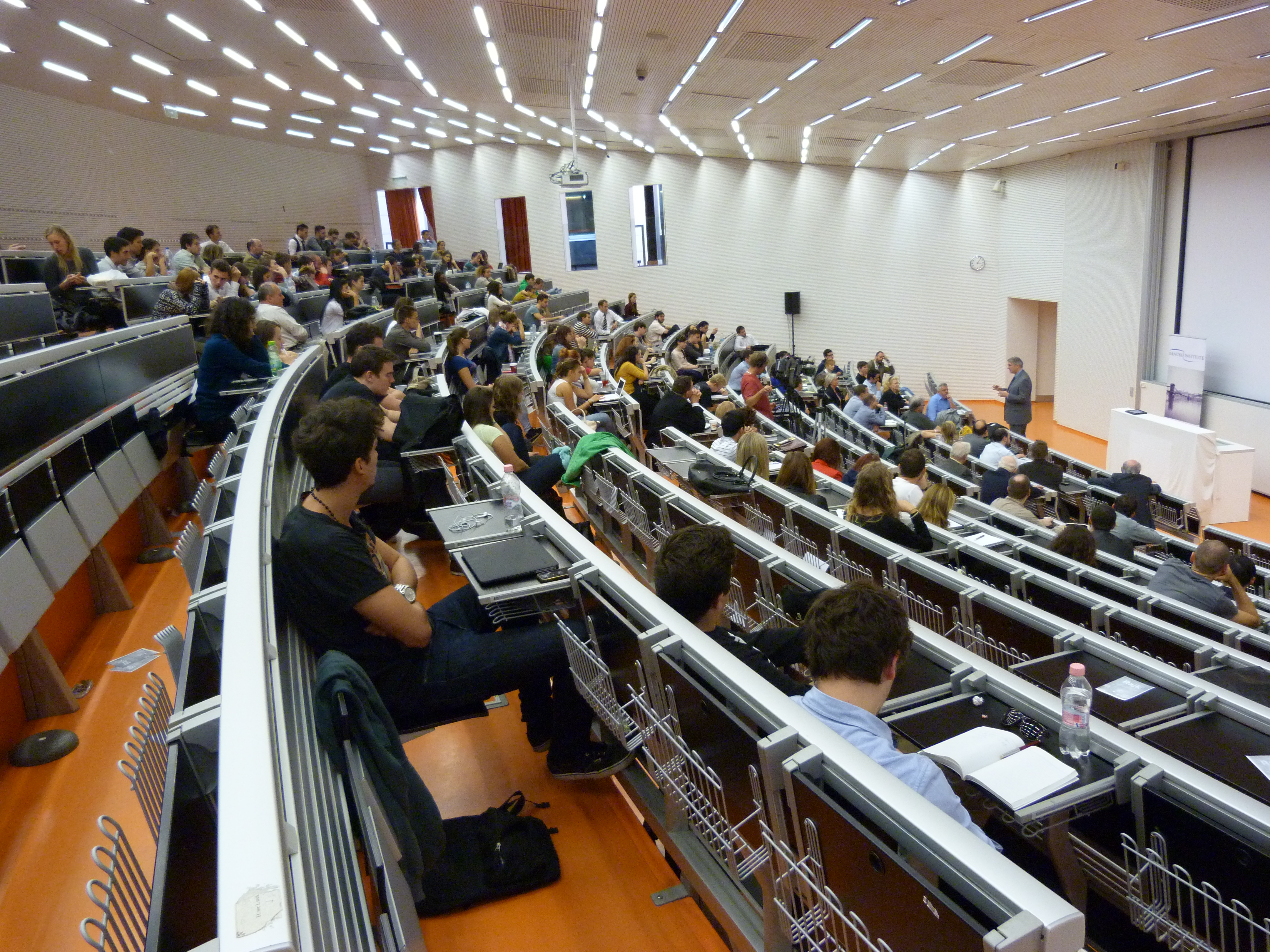 Clark S. Judge delivered his lecture titled "US Midterm elections: Is the Republican Party in its Death Throes ? " at Corvinus University, Budapest, Hungary. Lánczi András in the first row, in front of Clark S. Judge. Judge had been the speech writer of Ronald Reagen. He works for the Wall Street Journal, New York Times, Financial Times etc. ©© Derzsi Elekes Andor, Budapest 2014, You are authorised to use these photos and vids under Creative Commons – even for commercial, for profit purposes. Photos must be attributed to Derzsi Elekes Andor. All of the photos and vids in the Metapolisz DVD line are under Creative Commons and can be used even for commercial – for profit – purposes. Recommended Citation Derzsi Elekes Andor: Metapolisz DVD line